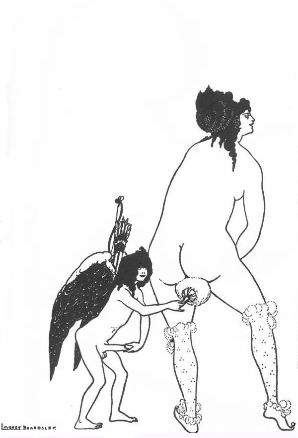 The Toilet of Lampito, Illustration from "Lysistrata", 1896